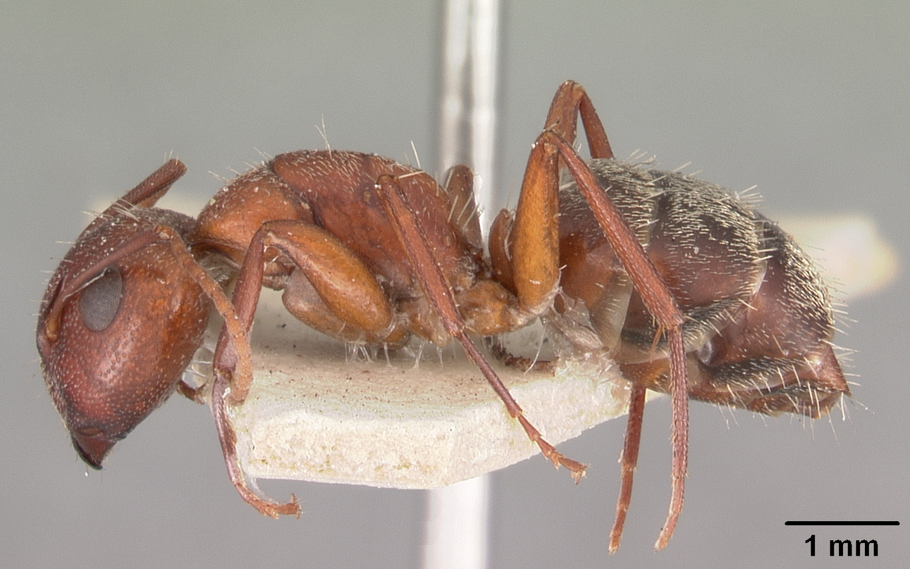 Profile view of ant Camponotus robecchii troglodytes specimen casent0102312.